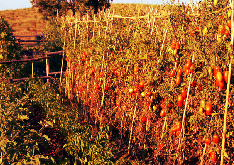 Variety of tomato Fiaschello Battipagliese - Campania - Italy